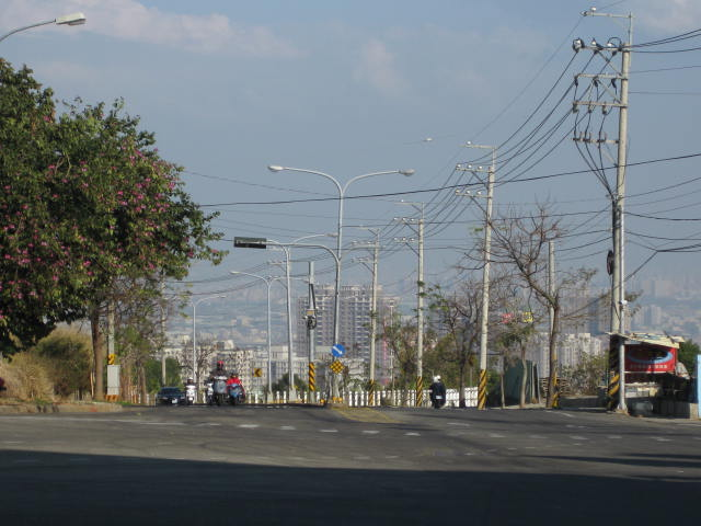 The intersection of Situn Rd. from the Utopian Community in Longjing, on the border of Taichung City and Taichung County.